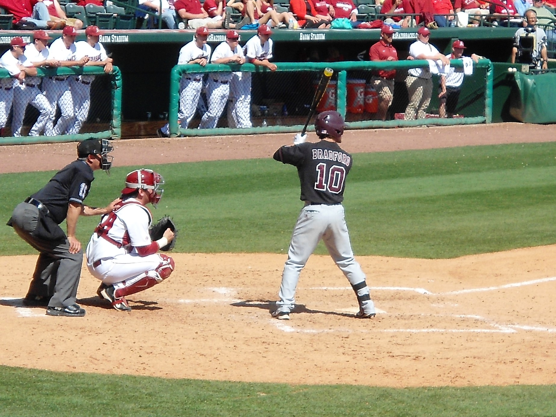 CT Bradford bats for the Mississippi State Bulldogs in a baseball game between Mississippi State and Arkansas. Jake Wise is catching for Arkansas